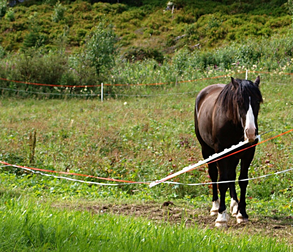 Horse and Electric fence, – Who, me? I did nooothing… Just needed a toothpick…